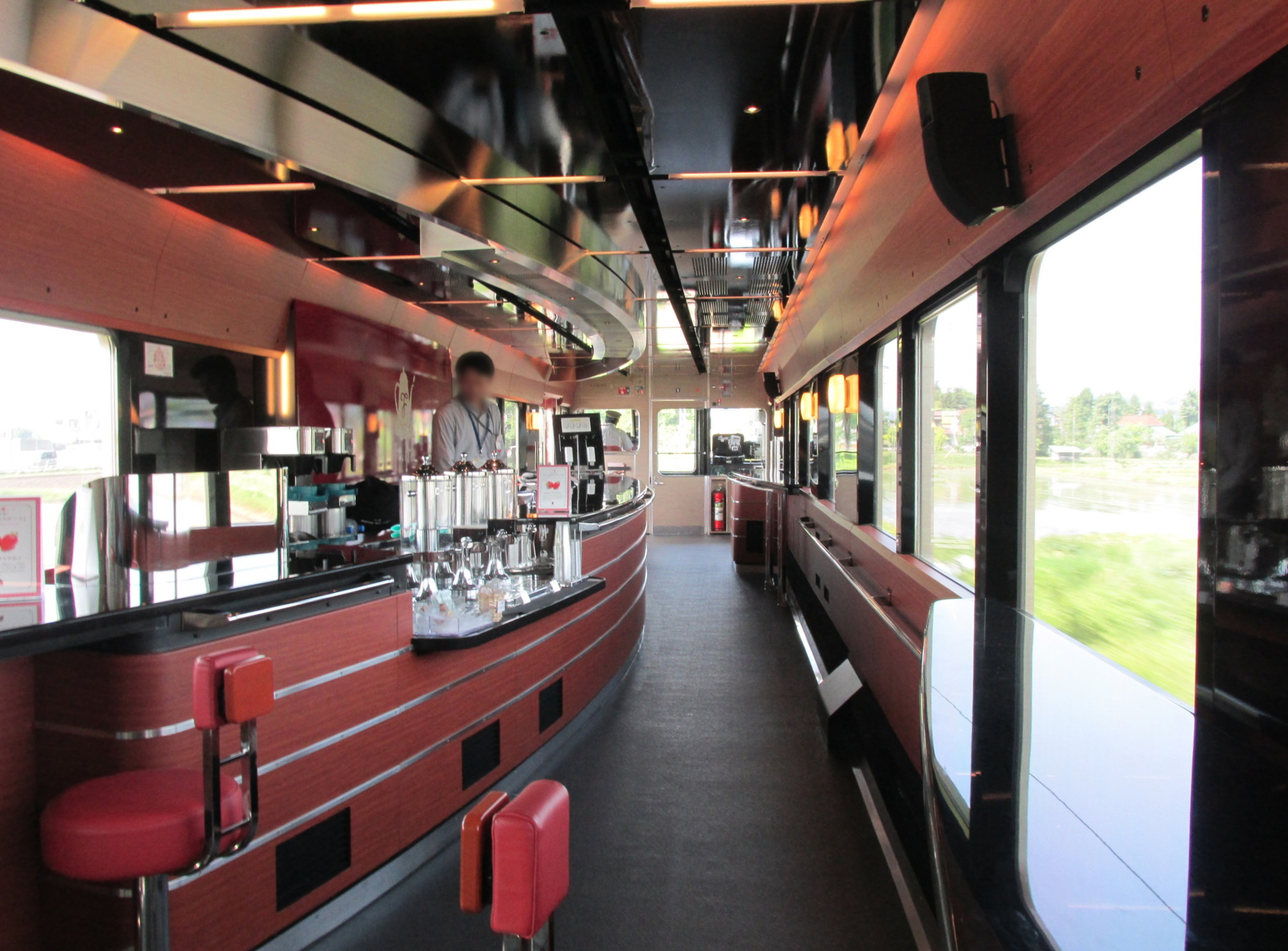 The interior of car KuShi 718-701 of the JR East 719-700 series "FruiTea" excursion train set